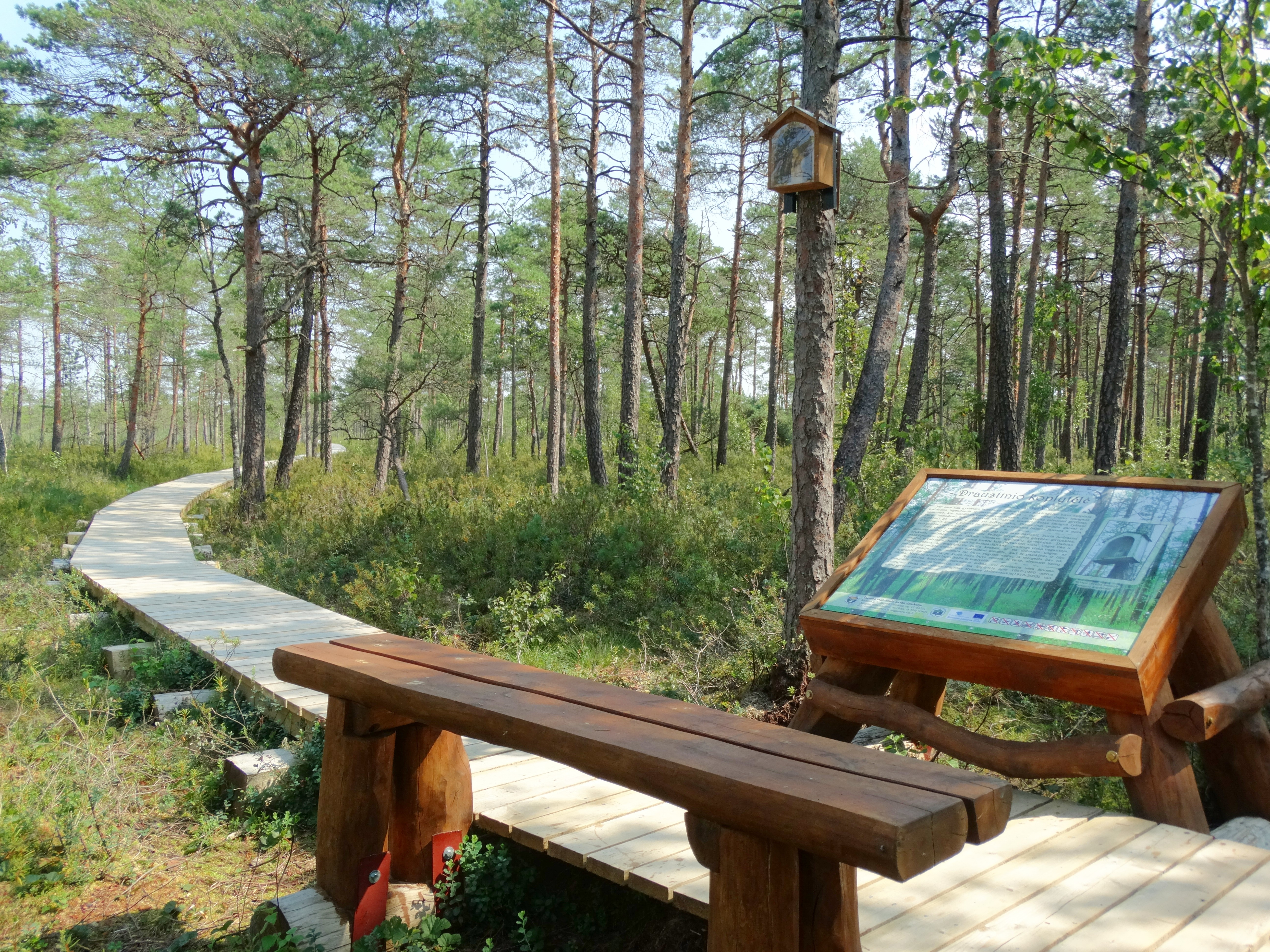 Swamp of Mūšos tyrelis, educational walkway, Joniškis district, Lithuania